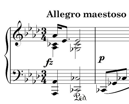 Polonaise-Fantasie in A flat major Op. 61 by F. Chopin